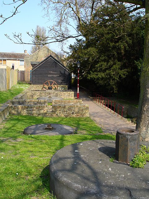 Chart gunpowder mill A modest little building surrounded by modern housing estates, Chart mill once played a major part in Faversham's gunpowder industry. The first nationalised industry in the country, gunpowder made here helped fight the Napoleonic wars. It was first established around 1560 but came under the control of the Government about 200 years later. There were two water wheels powering four mills. The edge running wheels seen here incorporated the raw materials; charcoal, sulphur and saltpetre.